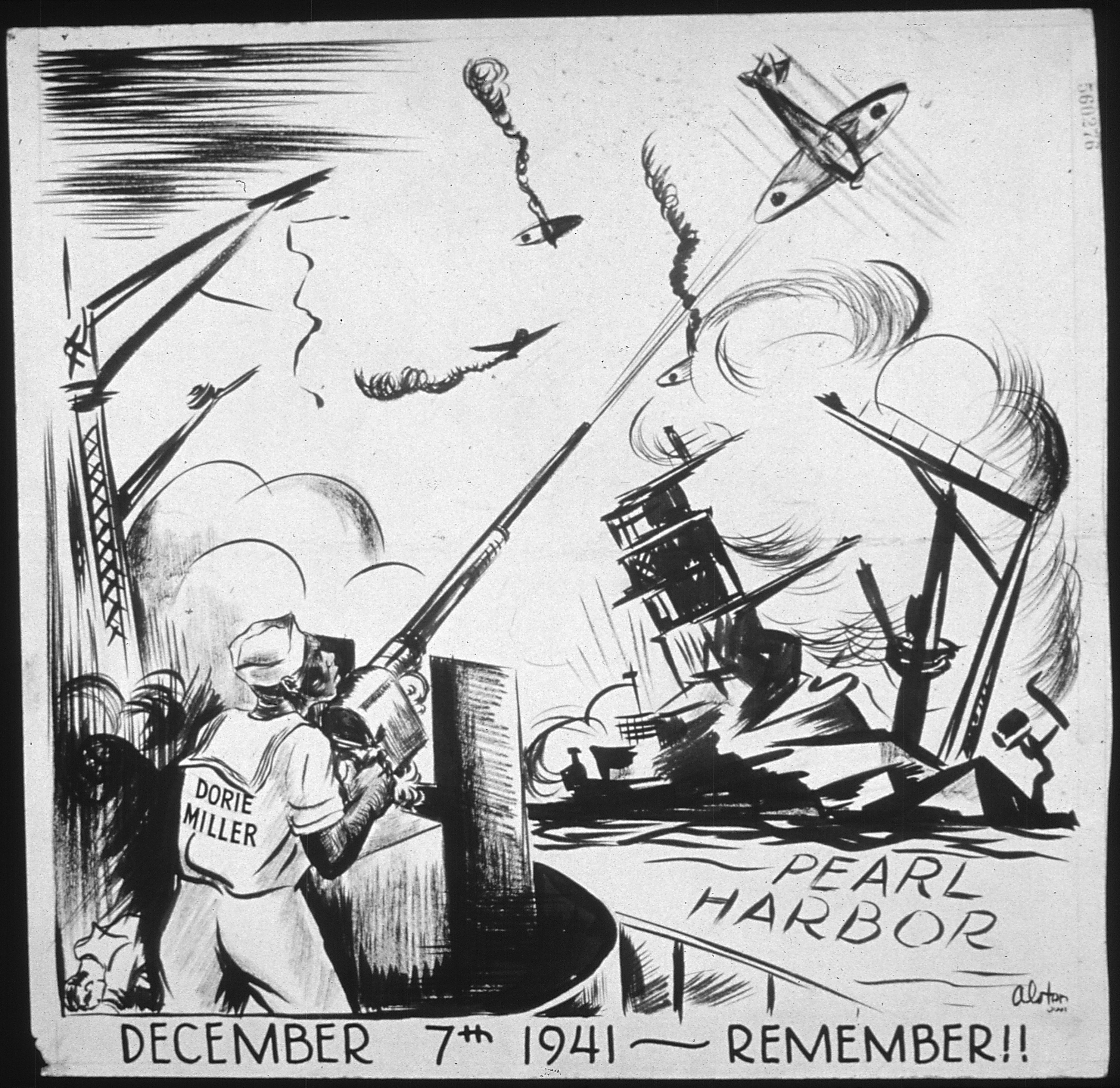 Scope and content: Dorie Miller defending Pearl Harbor during the Japanese attack.